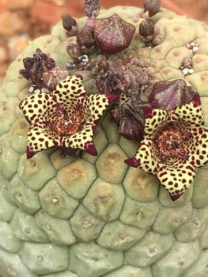 Larryleachia picta ( .) Plowes - cultivated at Heidelberg, Transvaal, South Africa